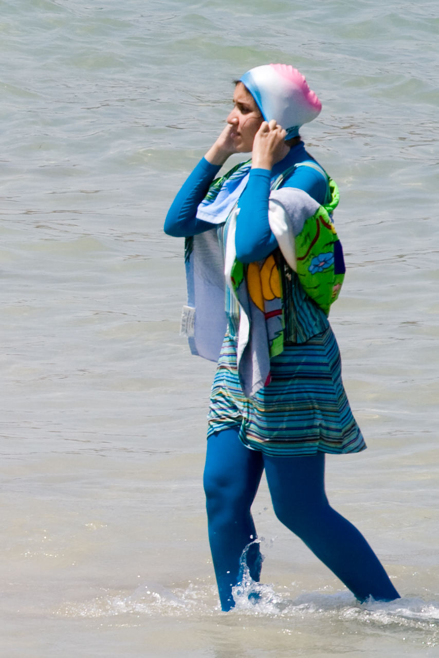 Woman wearing fashionable "burqini" swimwear on the beach of Alexandria, Egypt.